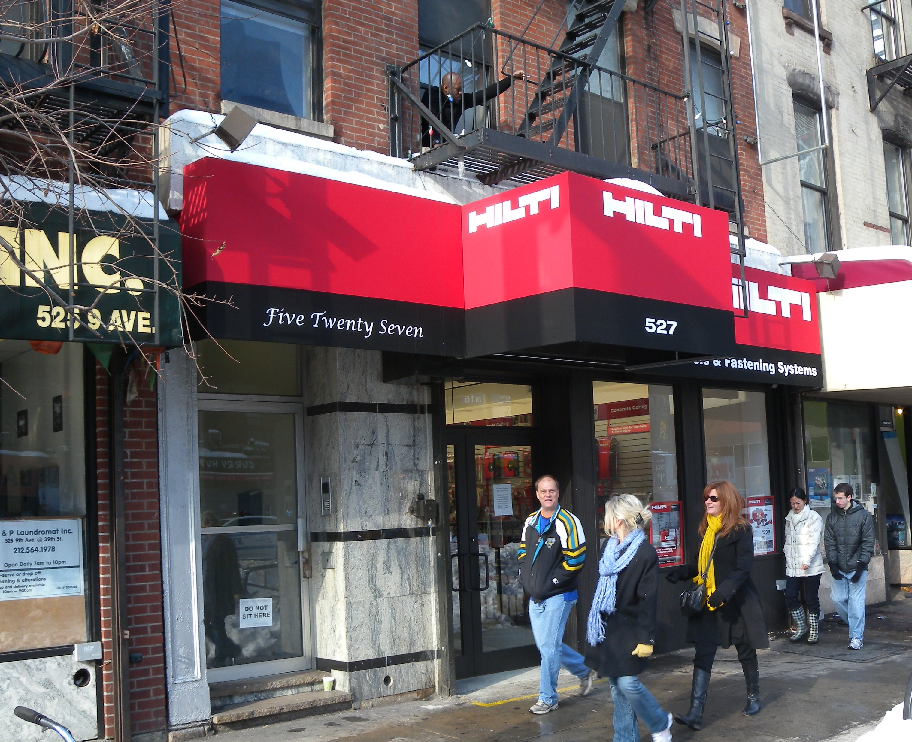 Looking north at Hilti after snow.